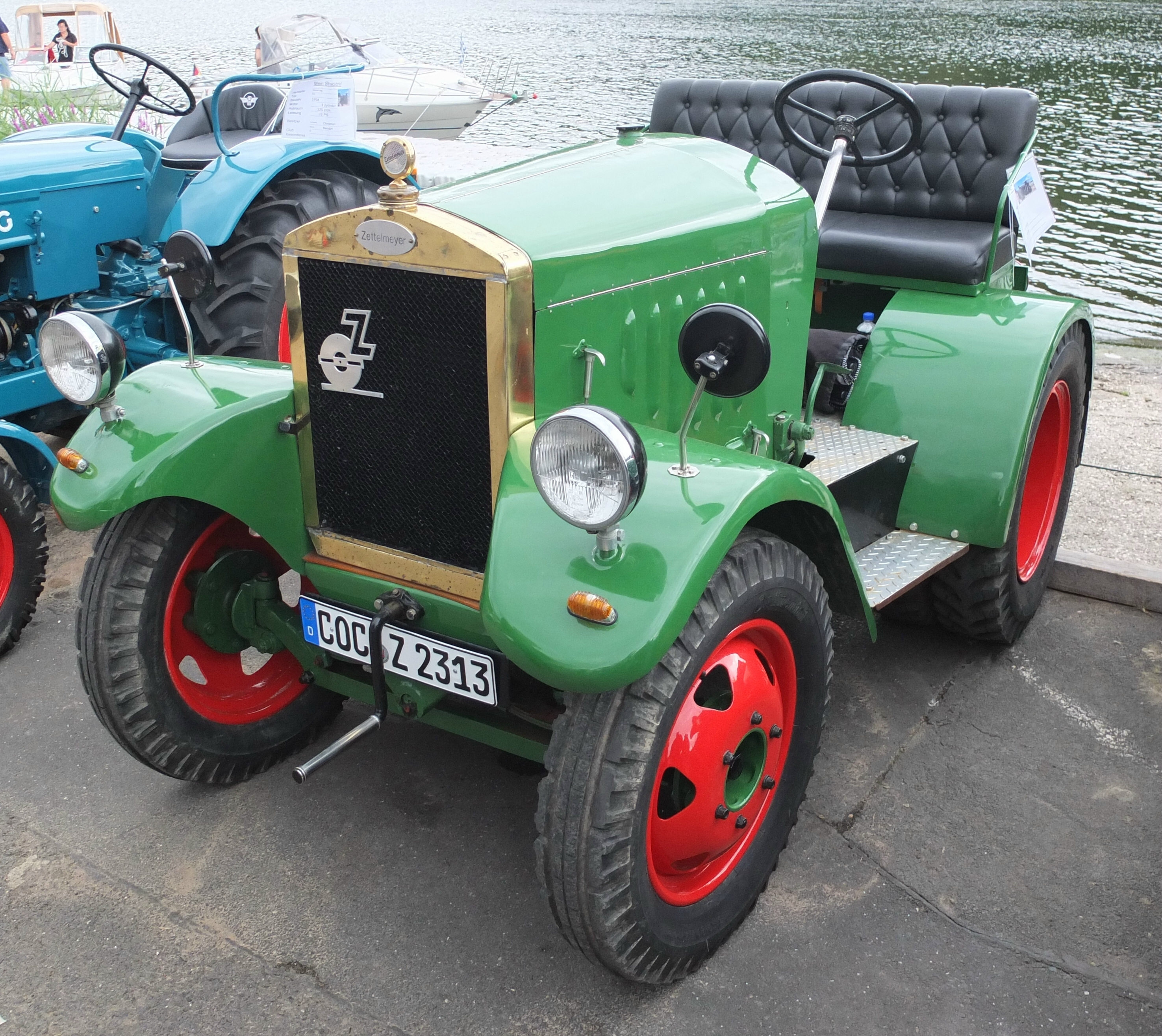 Zettelmeyer Tractor, Type Z2, built 1936.